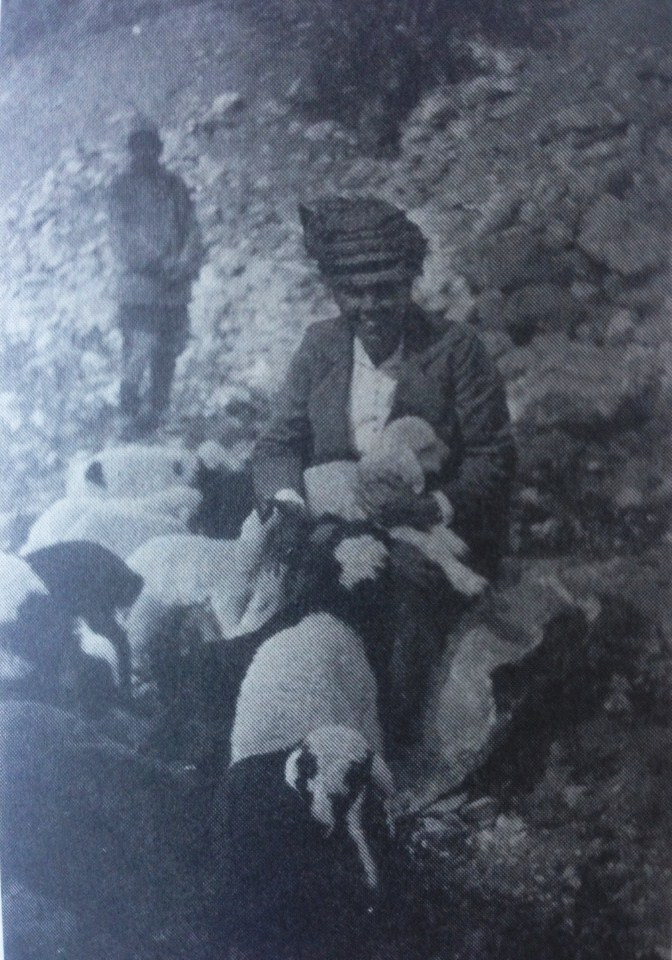 Historic photograph of a deceased foreign missionary (died 1921).